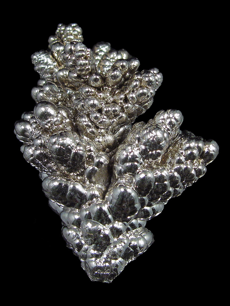 A piece of electrochemically grown nickel. There are no real crystals present, because the nickel was deposited layer by layer. It is a by-product of galvanising also called electroplating.